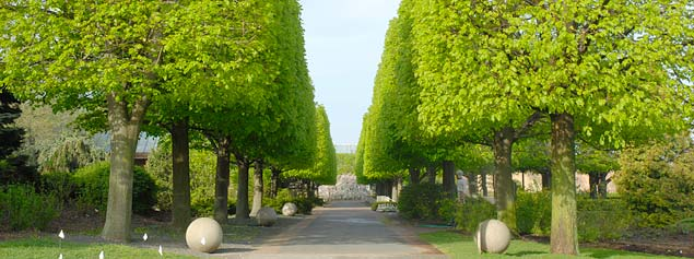 Chicago Botanic Garden Linden Allee